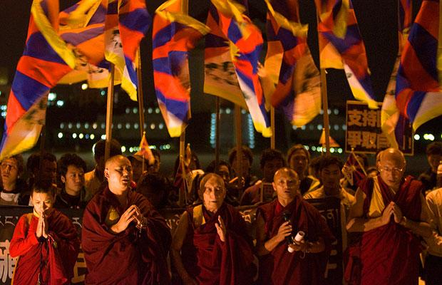 Students for a Free Tibet (SFT) works in solidarity with the Tibetan people in their struggle for freedom and independence. This is a chapter-based network of young people and activists around the world. Through education, grassroots organizing, and non-violent direct action, SFT campaign for Tibetans’ fundamental right to political freedom. SFT's role is to empower and train youth as leaders in the worldwide movement for social justice.